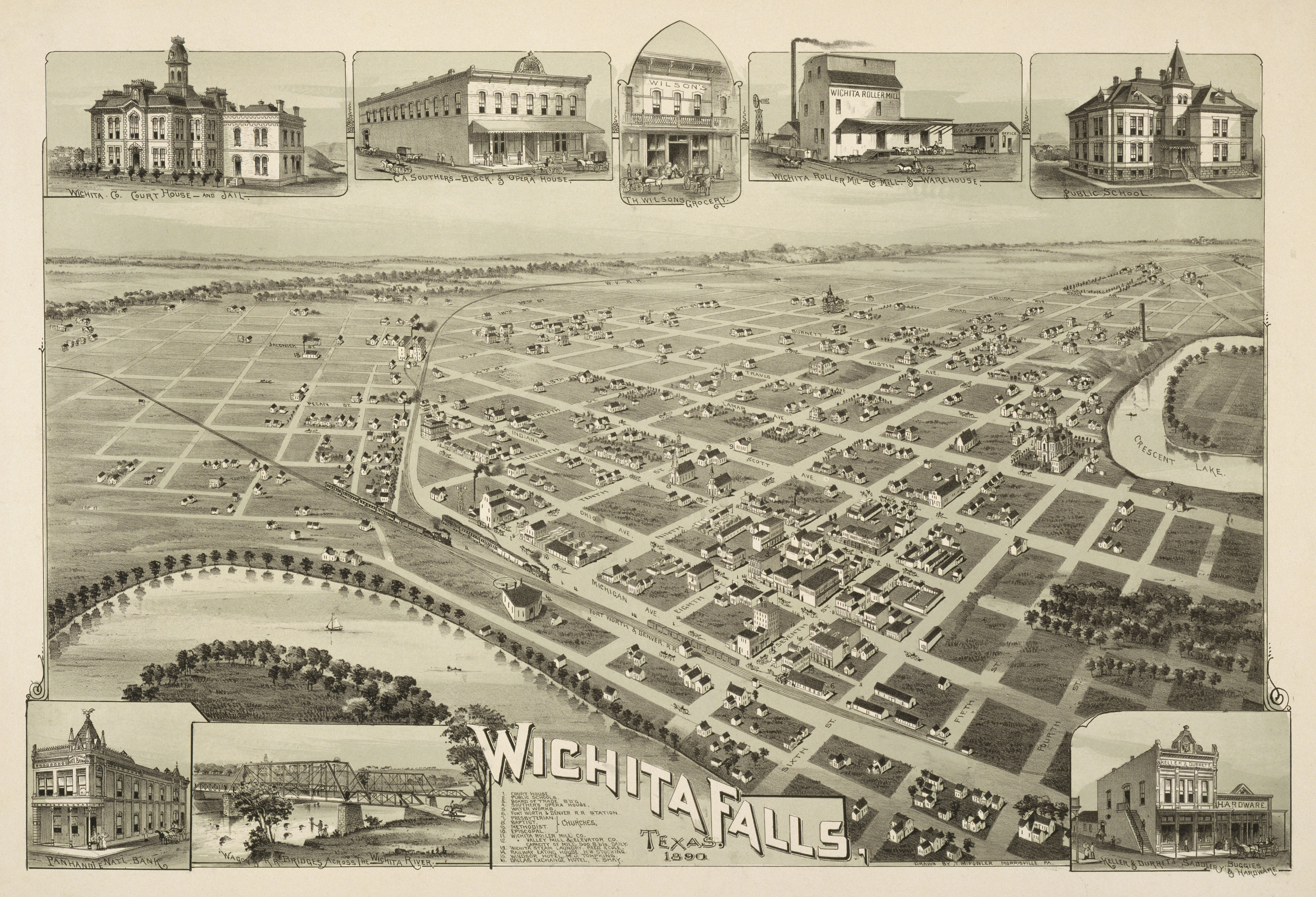 Wichita Falls, Texas in 1890. Wichita Falls, Texas. 1890, 1890. Toned lithograph, 19 x 28.7 in. Lithographer unknown. Amon Carter Museum, Fort Worth.